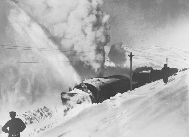 A rotating snowplow pushed by two steam locomotives fighting its way over Hardangervidda on the railway Bergensbanen, Norway.